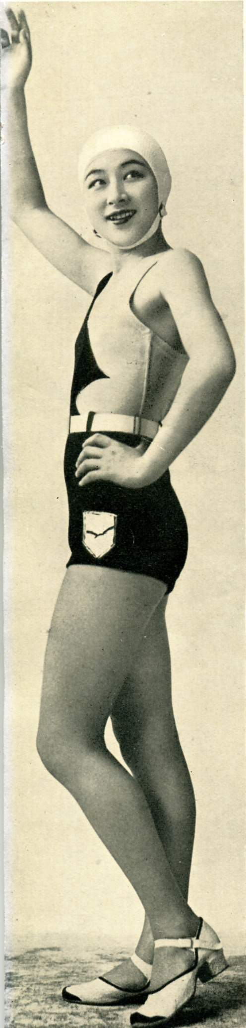 Portrait of the actress Yumeko Aizome (1934)